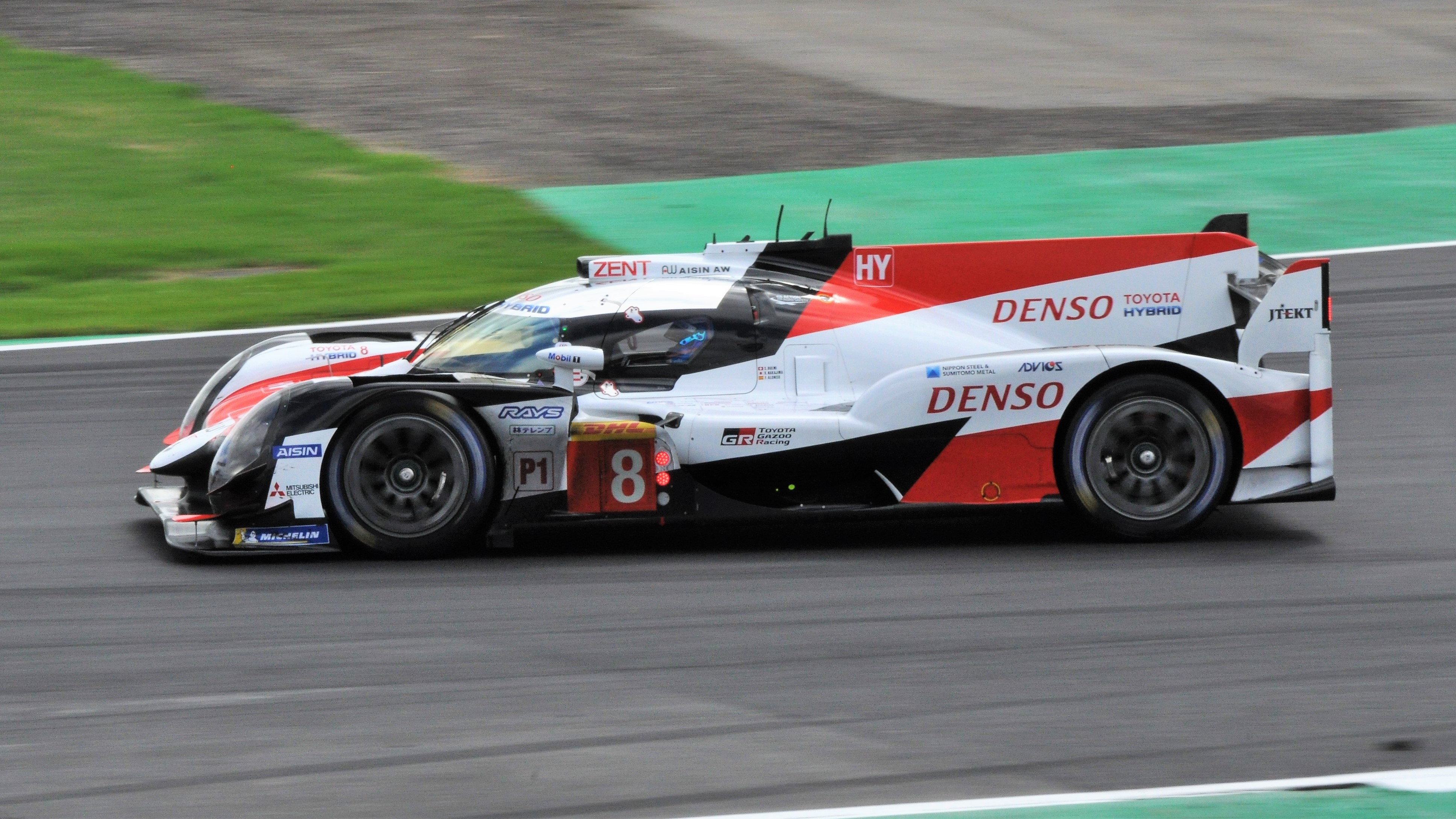 Spanish driver Fernando Alonso lines his Toyota TS050 car up for Village corner, during the 2018 6 Hours of Silverstone race. Alonso and his co-drivers, Sébastien Buemi and Kazuki Nakajima, finished the race in first place, but were subsequently disqualified as their car infringed technical regulations.